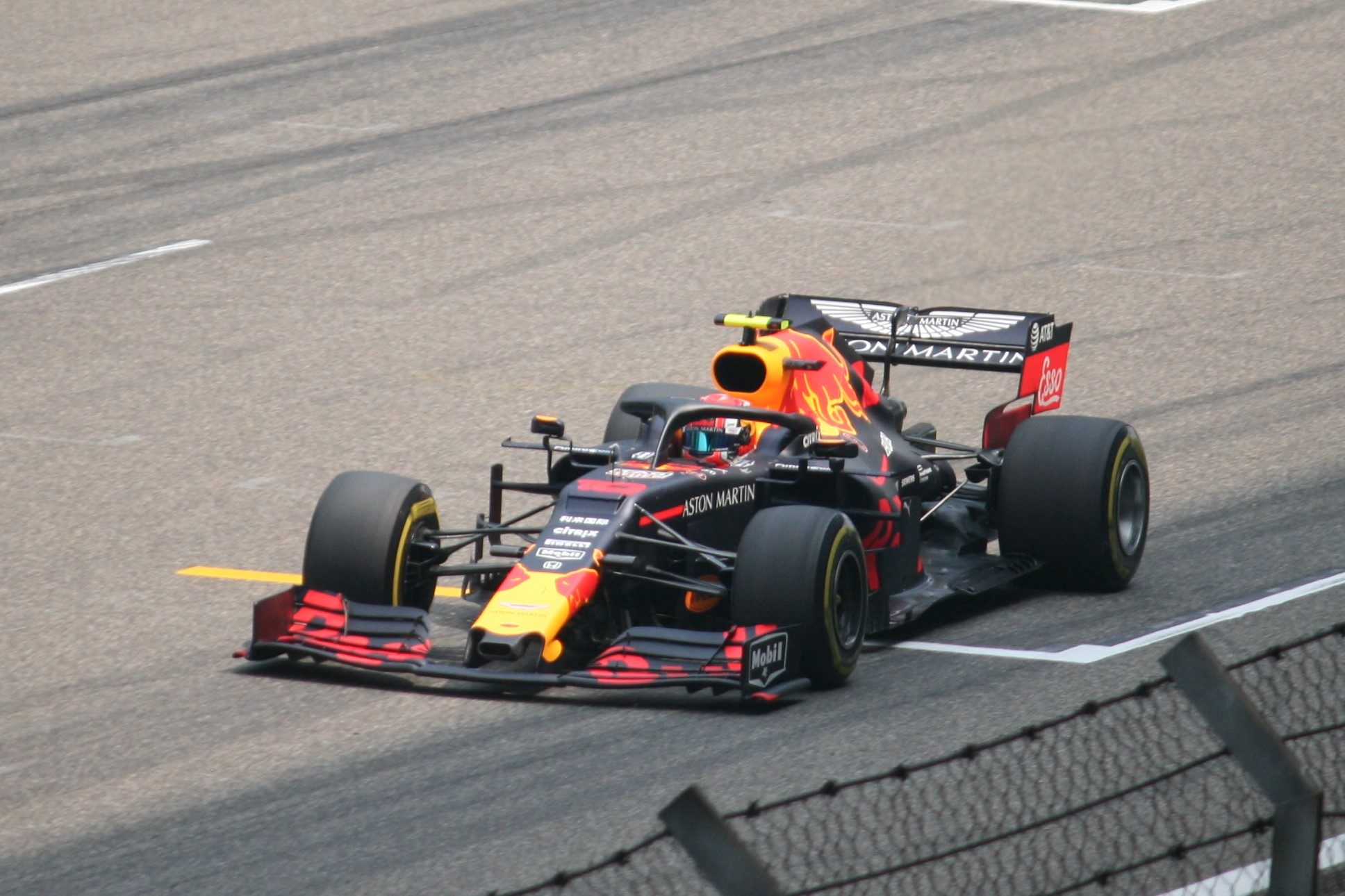 Pierre Gasly, 2019 Chinese GP